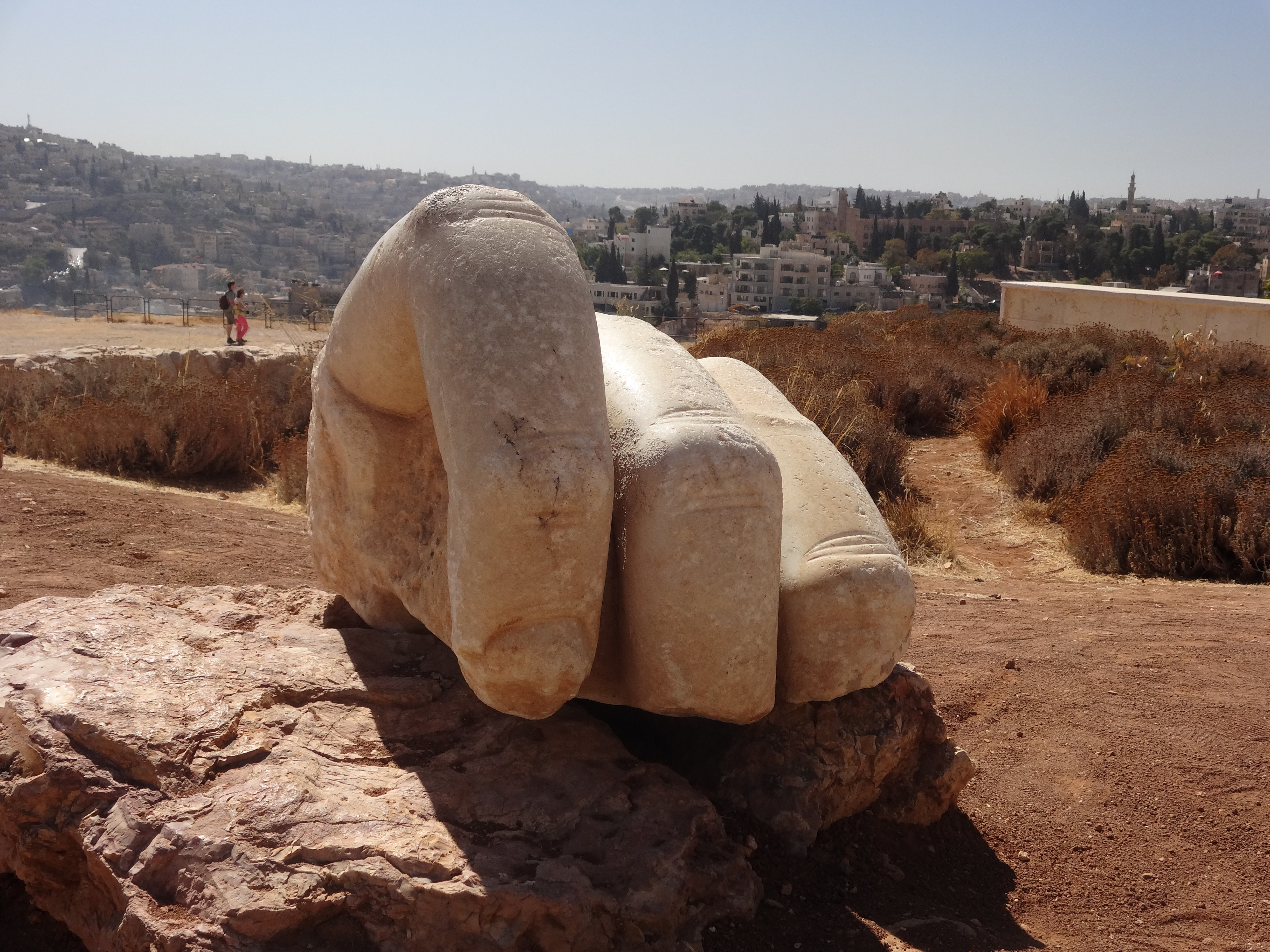 Settlement at the Citadel extends over 7,000 years